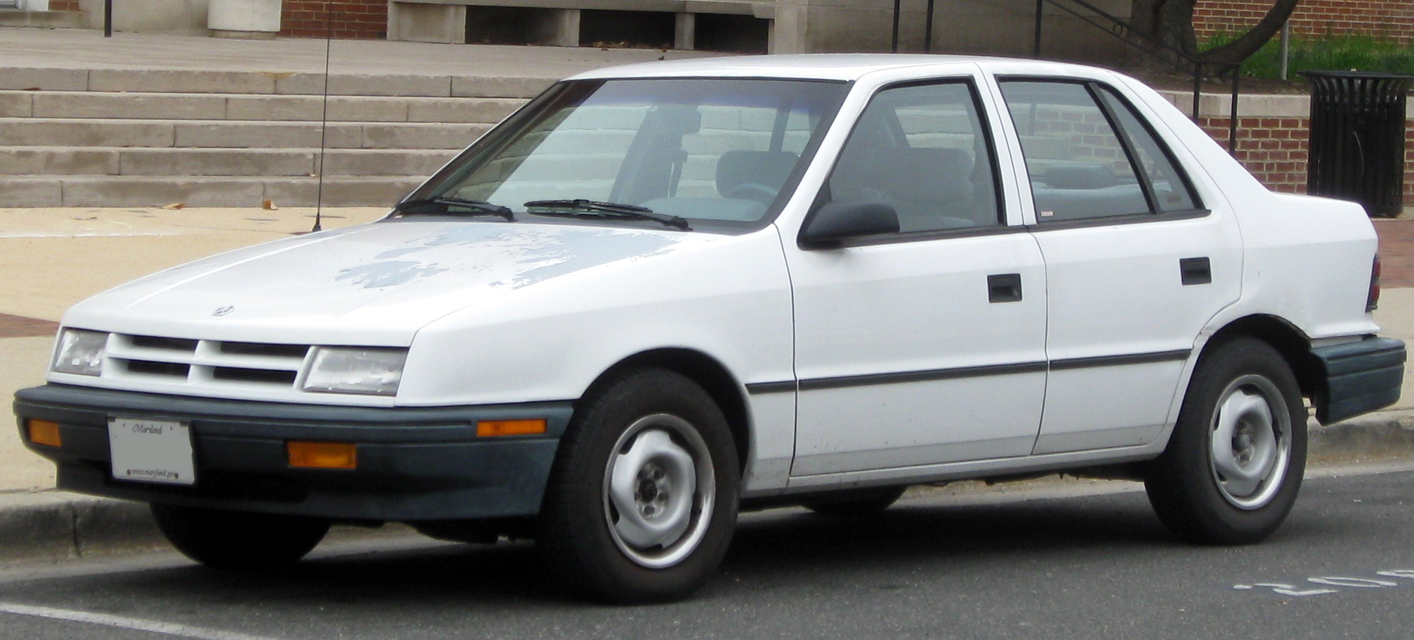 1989-1994 Dodge Shadow photographed in College Park, Maryland, USA.